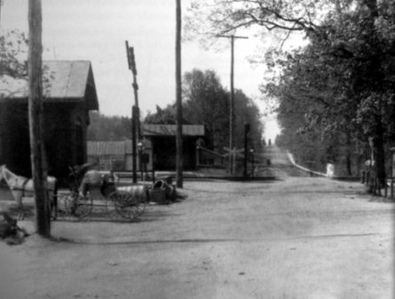 Summit Avenue, Gaithersburg, Maryland (1900)